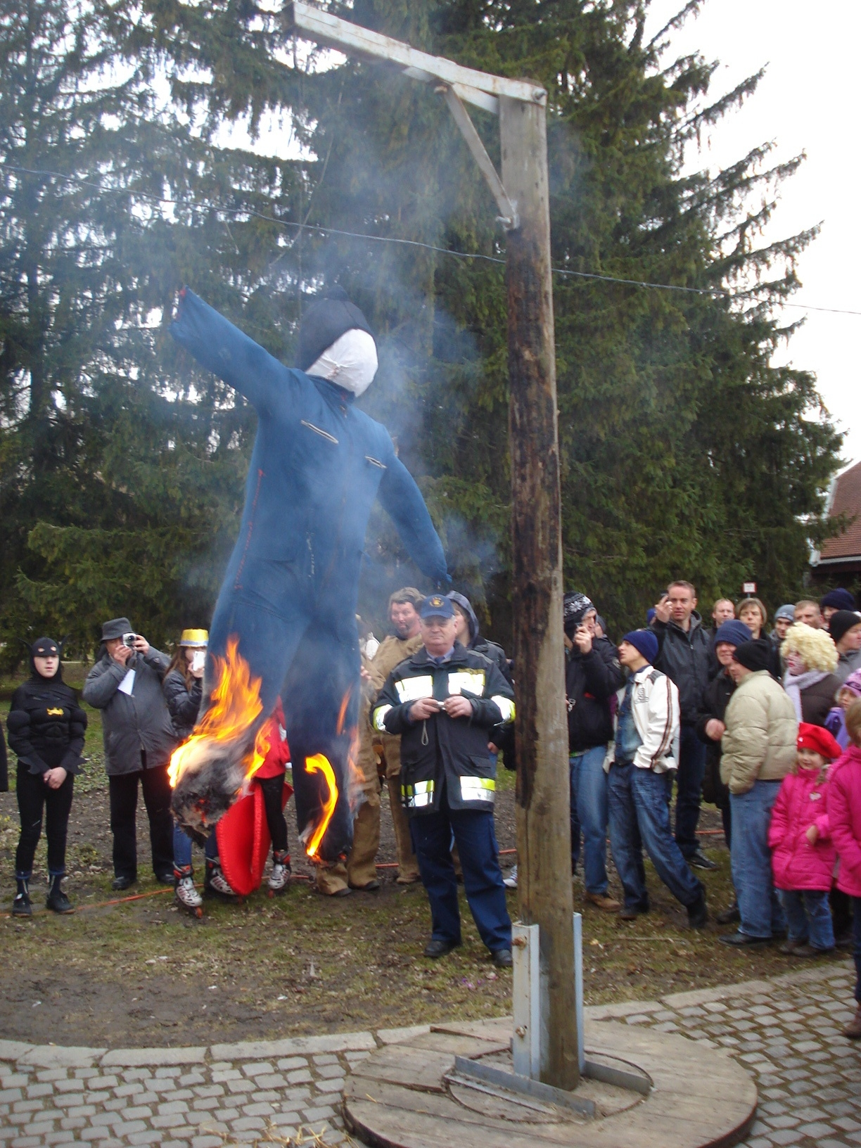 Medjimurje Carnival 2011 (Croatia) - Carnival evil man burning